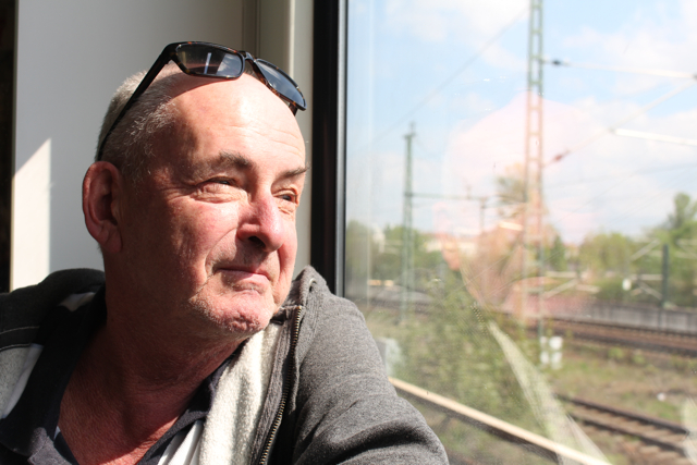 Kurt-Friedrich Gänzl (Berlin, 2014)